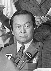 Press conference of Thai prime minister Kukrit Pramoj and foreign minister Chatichai Choonhavan on the withdrawal of US troops from Thailand, 1976, by Norman Peagam